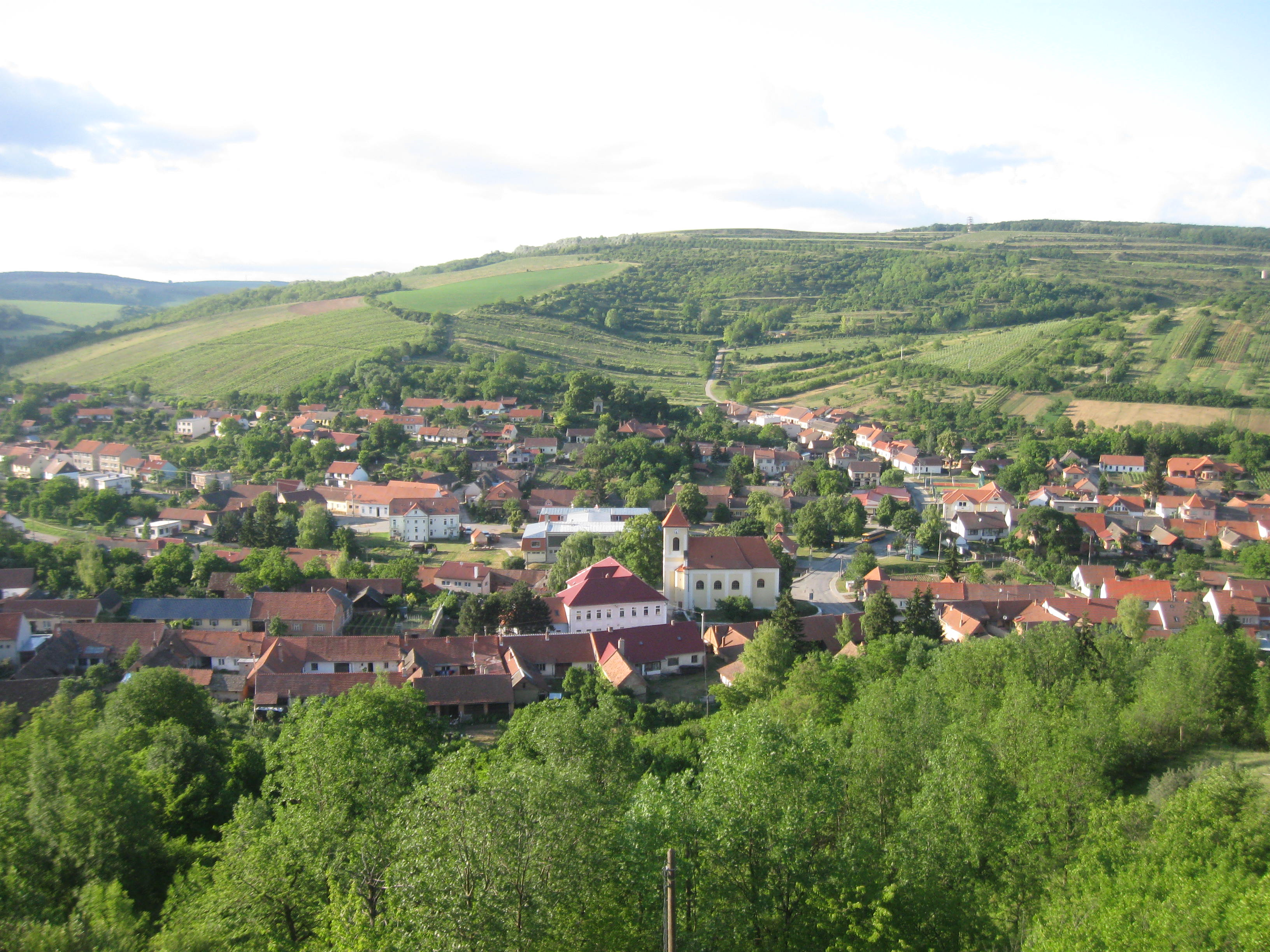 South Moravian village Boleradice